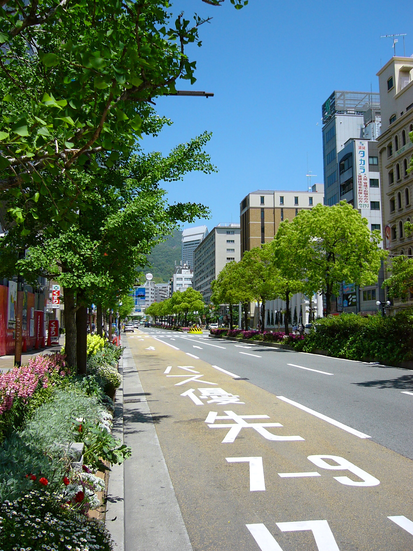 Flower Road in Kobe, Hyogo prefecture, Japan